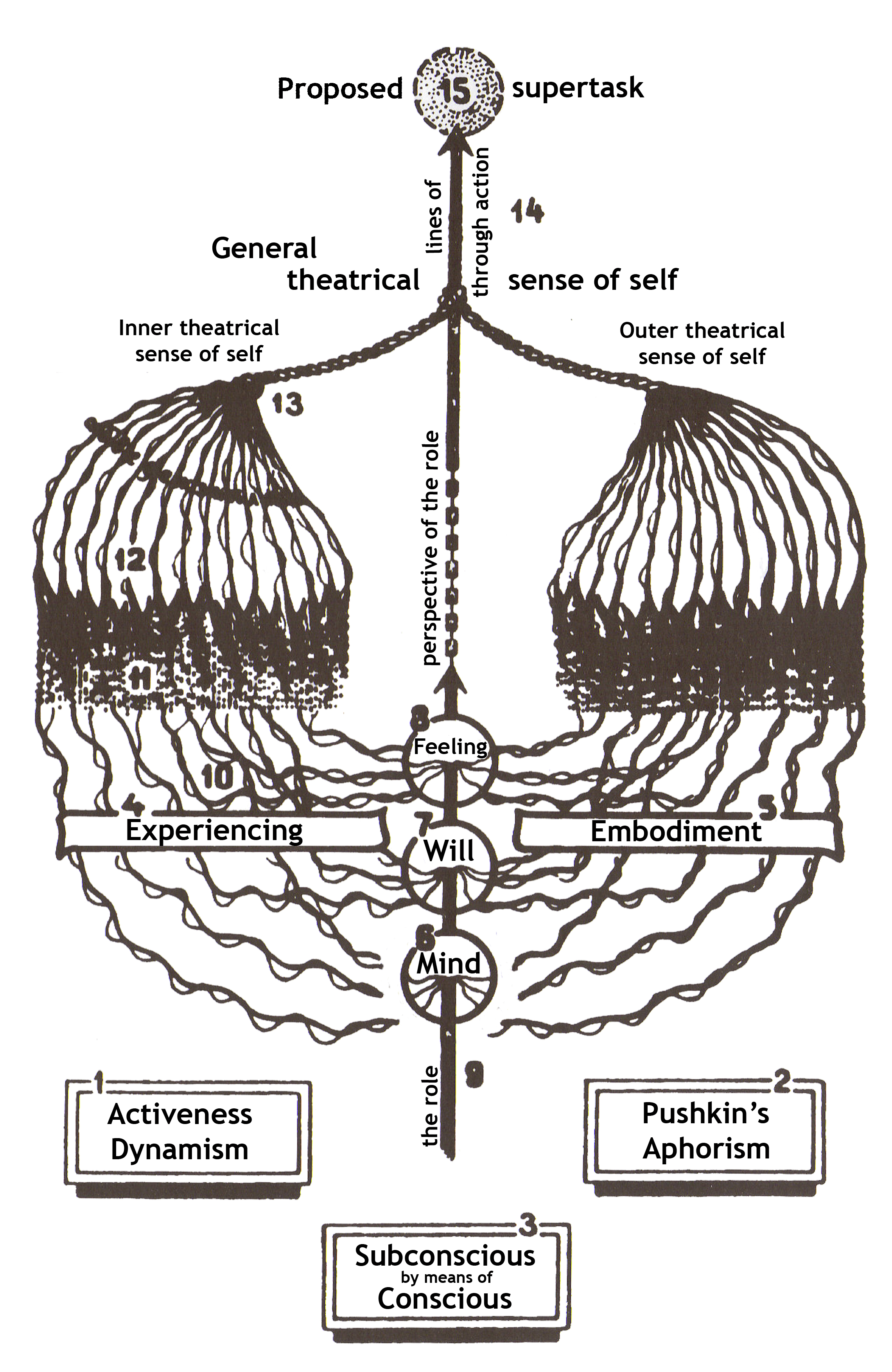 Diagram in English language of Konstantin Stanislavski's 'system'